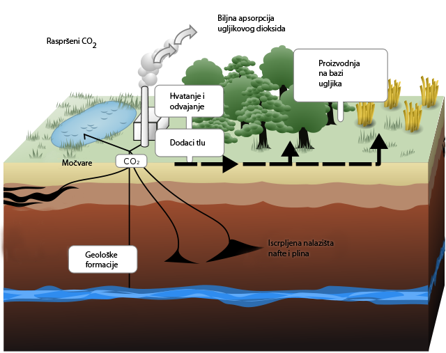 Schematic showing both terrestrial and geological sequestration of carbon dioxide emissions from a coal-fired plant. Rendering by LeJean Hardin and Jamie Payne.